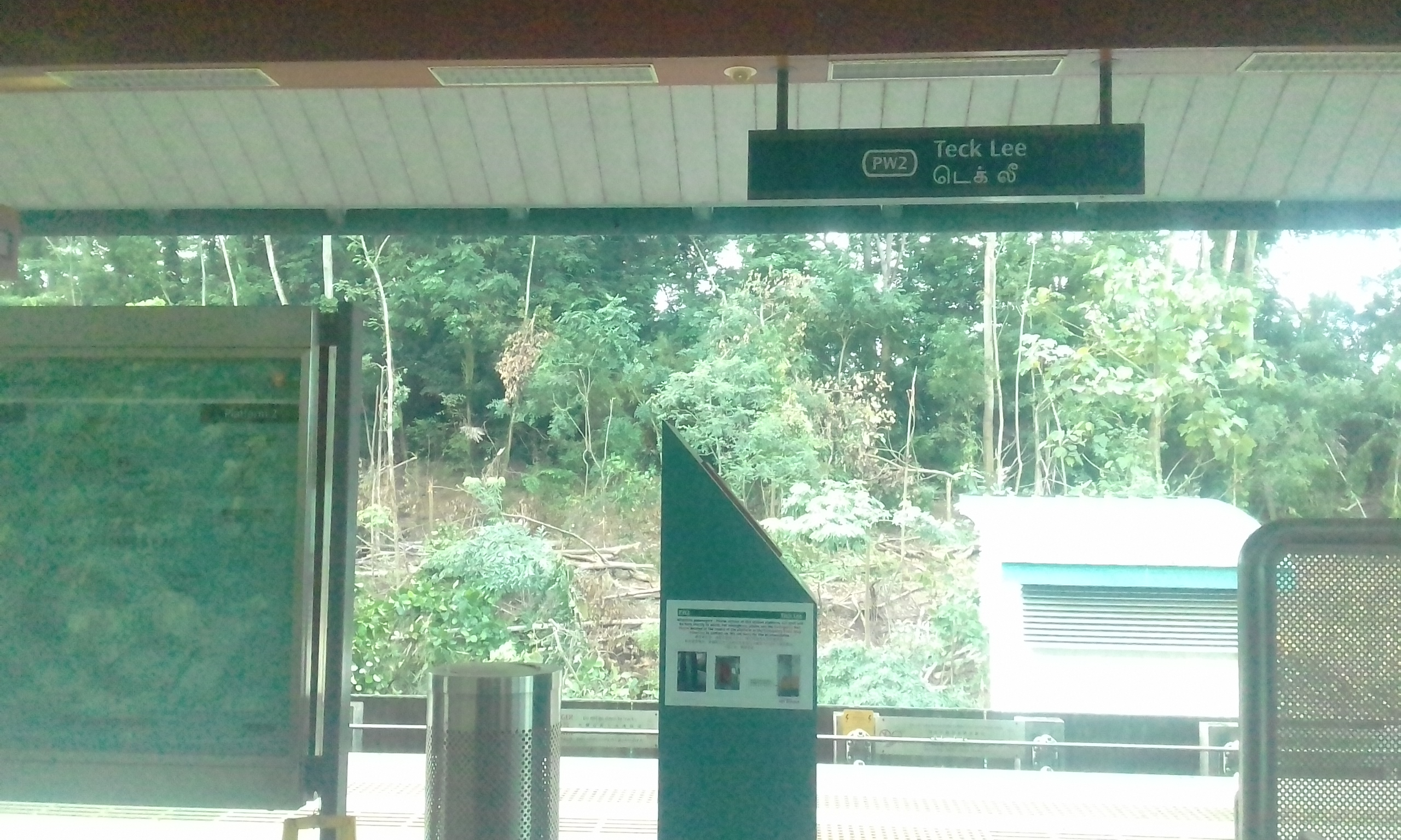 Teck Lee Platform